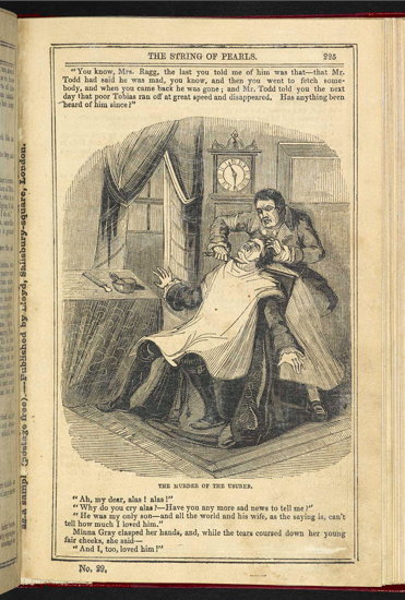 Sweeney Todd murdering a victim